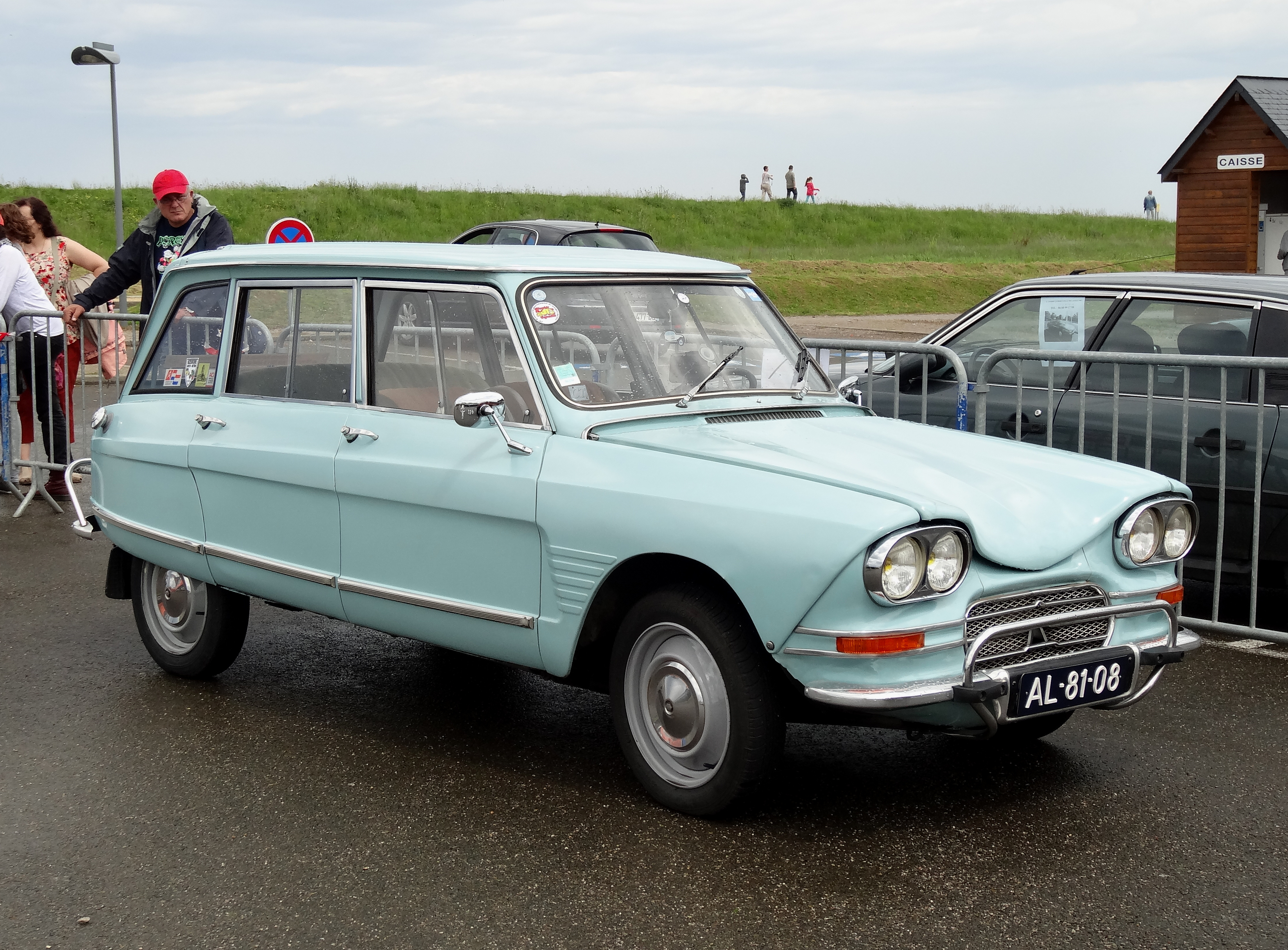 1968 Citroën Ami 6 Break